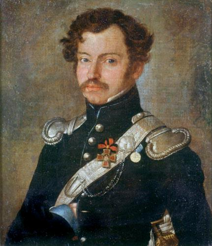 Portrait of russian officer A.A. Zakharyin by unknown artist. Moscow panorama-museum "Battle of Borodino".